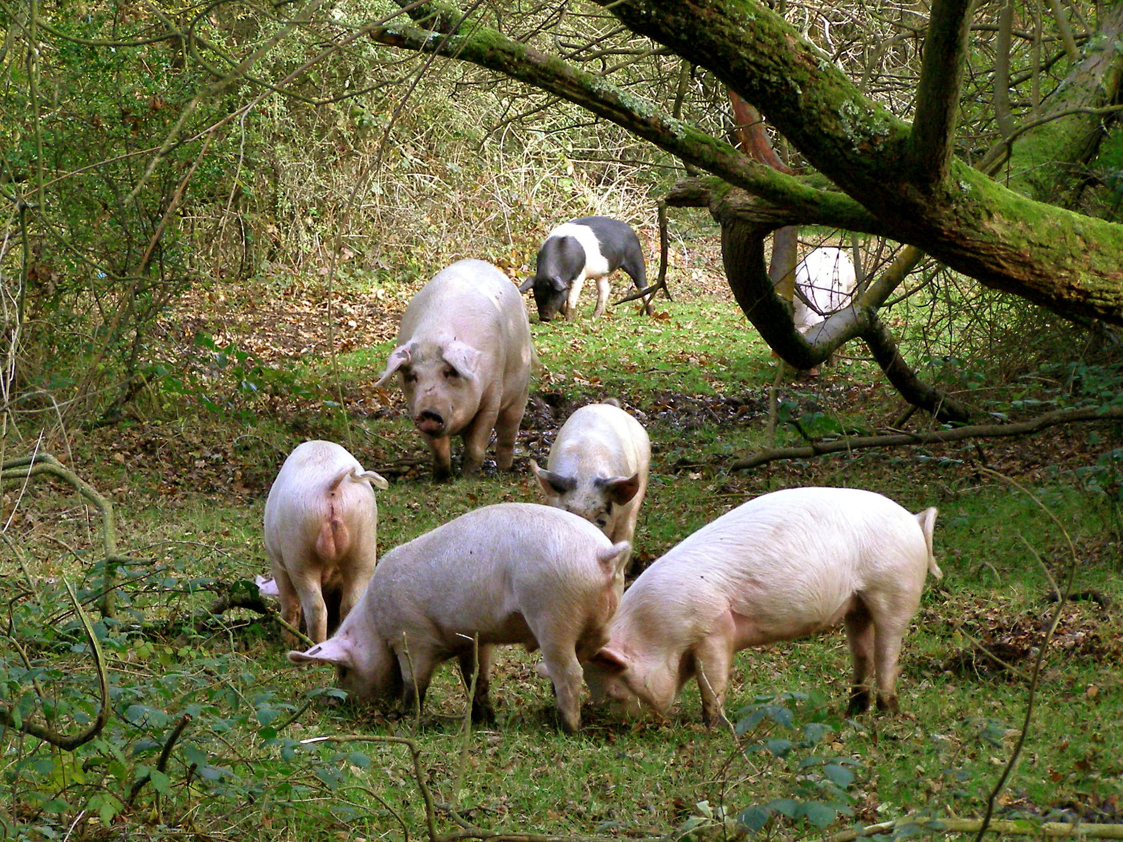 Pig and piglets in woodland alongside Ober Water, New Forest